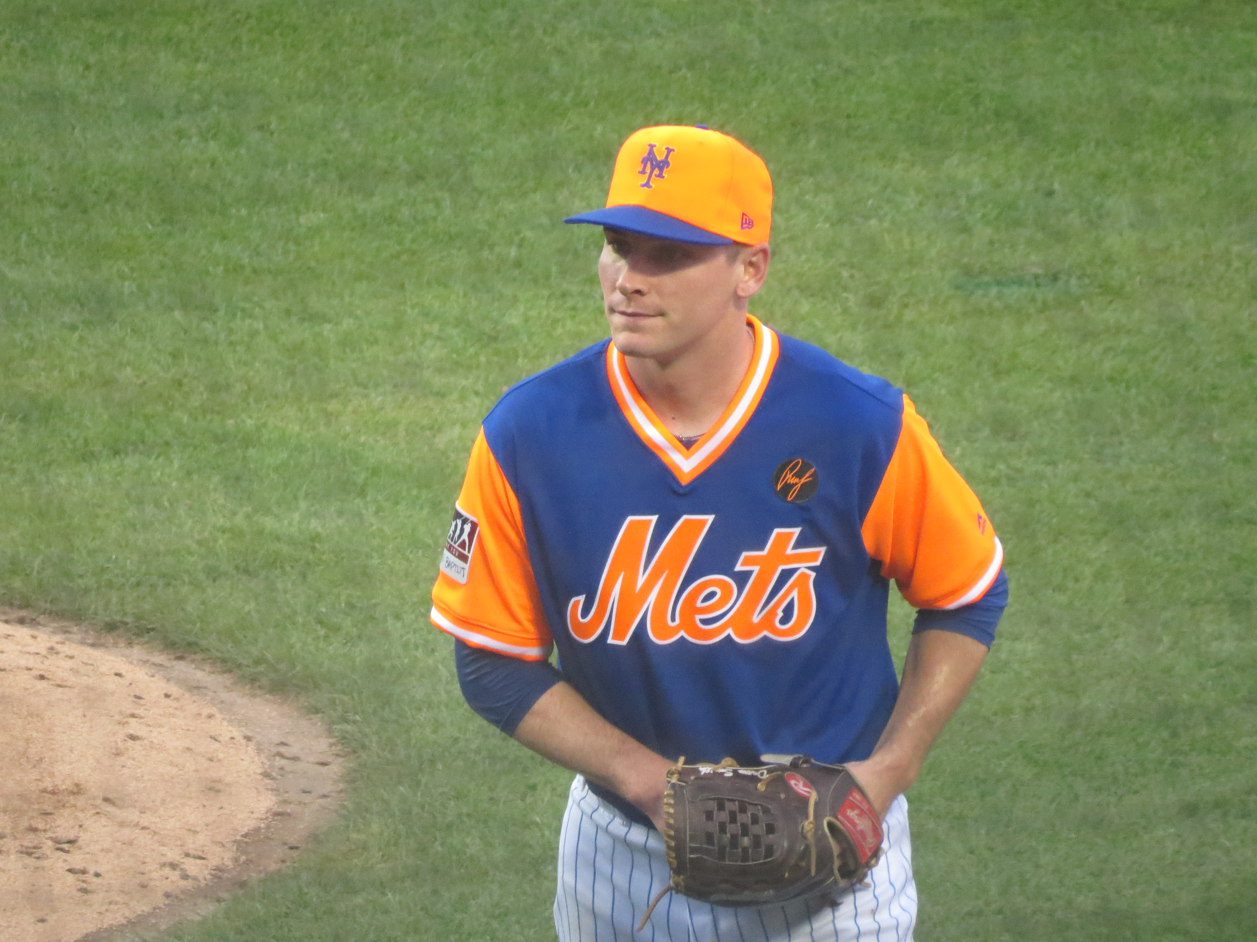 Drew Smith of the Mets pitching on August 25, 2018